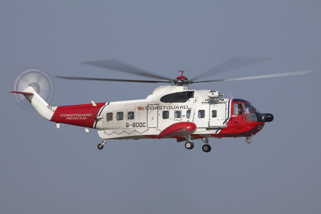 Sikorsky S-61N of the Netherlands Coastguard operated by Bristow, registration G-BDOC, at Heldair Show Maritiem 2009.